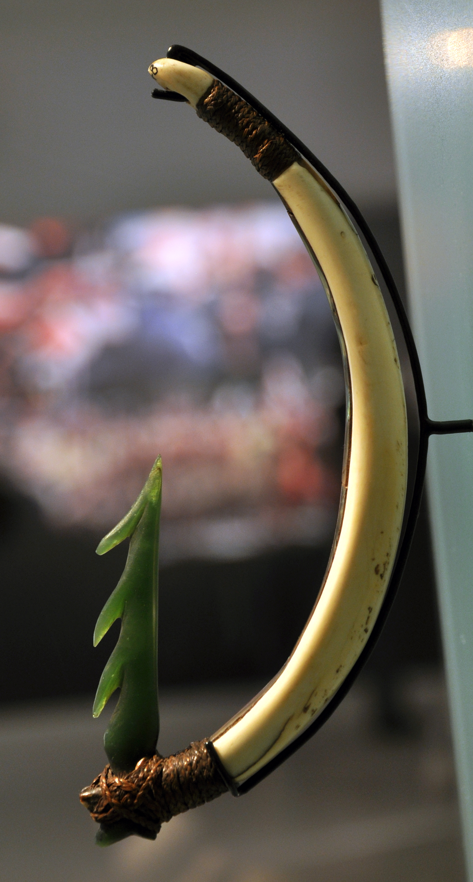 Fishing hook, nephrite, whale bone and abalone shell (not visible here), Maori culture, 1800-1900. In the exhibition "Maori, their treasures have got a soul", in the Musée des Arts Premiers in Paris, from the end of 2011 to the begining of 2012.